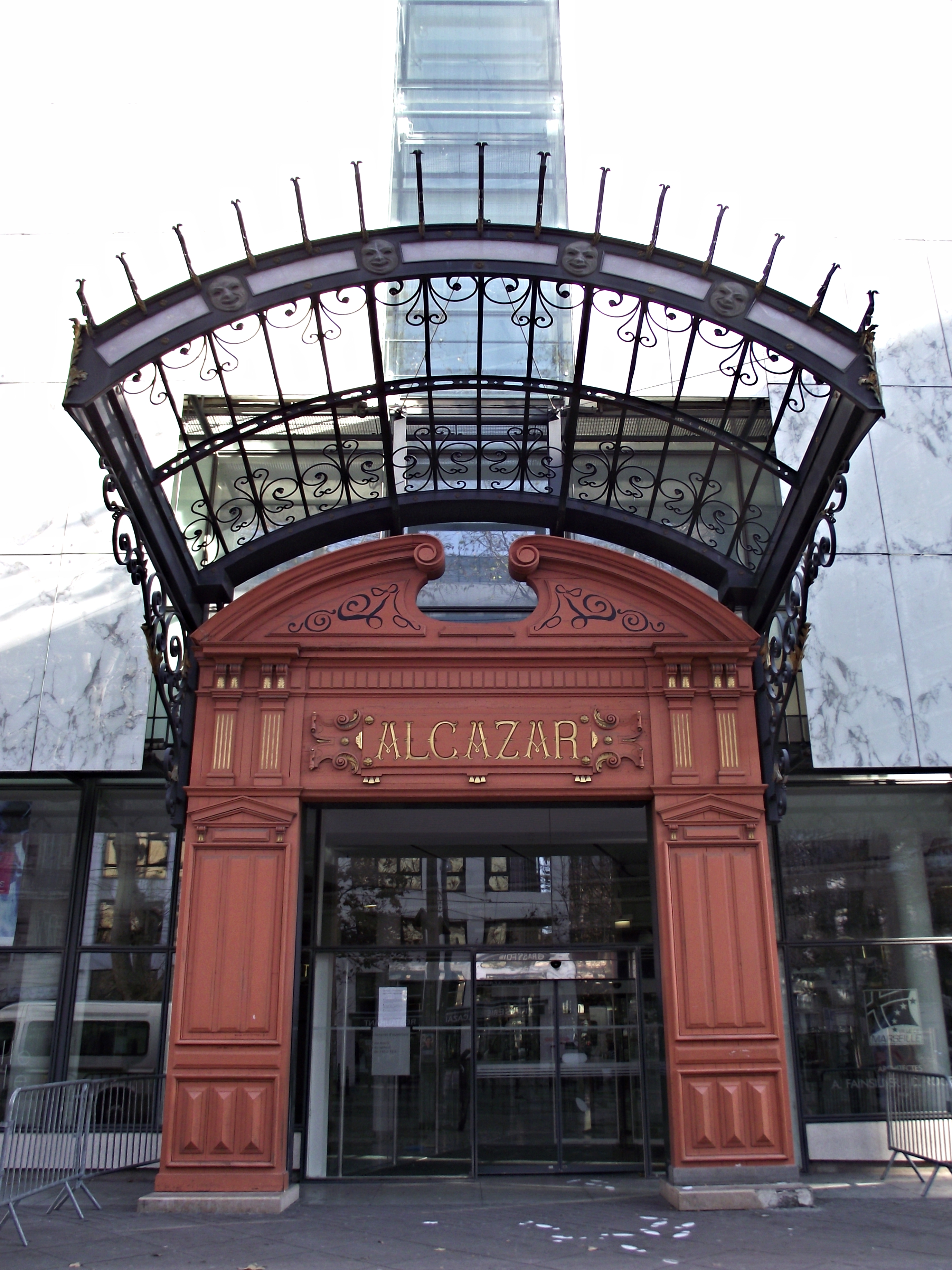 Belsunce | Cours Belsunce The Alcazar Lyrique opened on October 10, 1857. The hall is decorated in "Moorish fantasy" by its owner Stephen Demolins, referring to the Alhambra in Granada and can accommodate 2000 people. On June 25, 1873, a fire broke out and destroyed the theatre. The hall reopened four months later, the Alcazar undergoing renovation during which was created topped front door of a canopy, still visible today. The theatre is a converted into a movie theatre in the early 1930s. It faced its first bankruptcy in 1964 before closing its doors on August 9, 1966. On March 30, 2004, the Alcazar reopened as a public library with a regional focus to replace the St. Charles Library on the project of architects Adrien Fainsilber and Didier Rogeon.